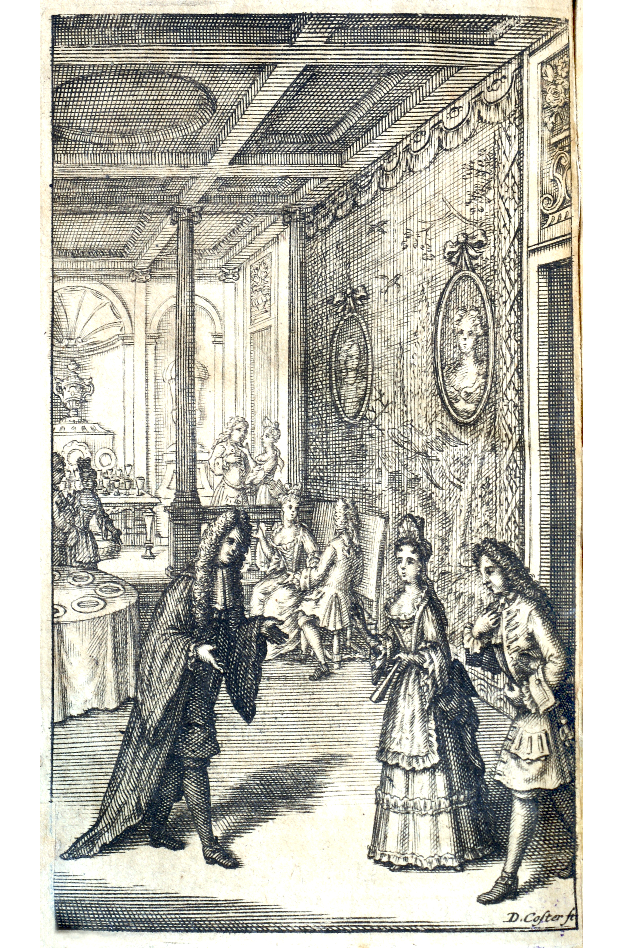 Robert Challe, Les Illustres françaises page de titre